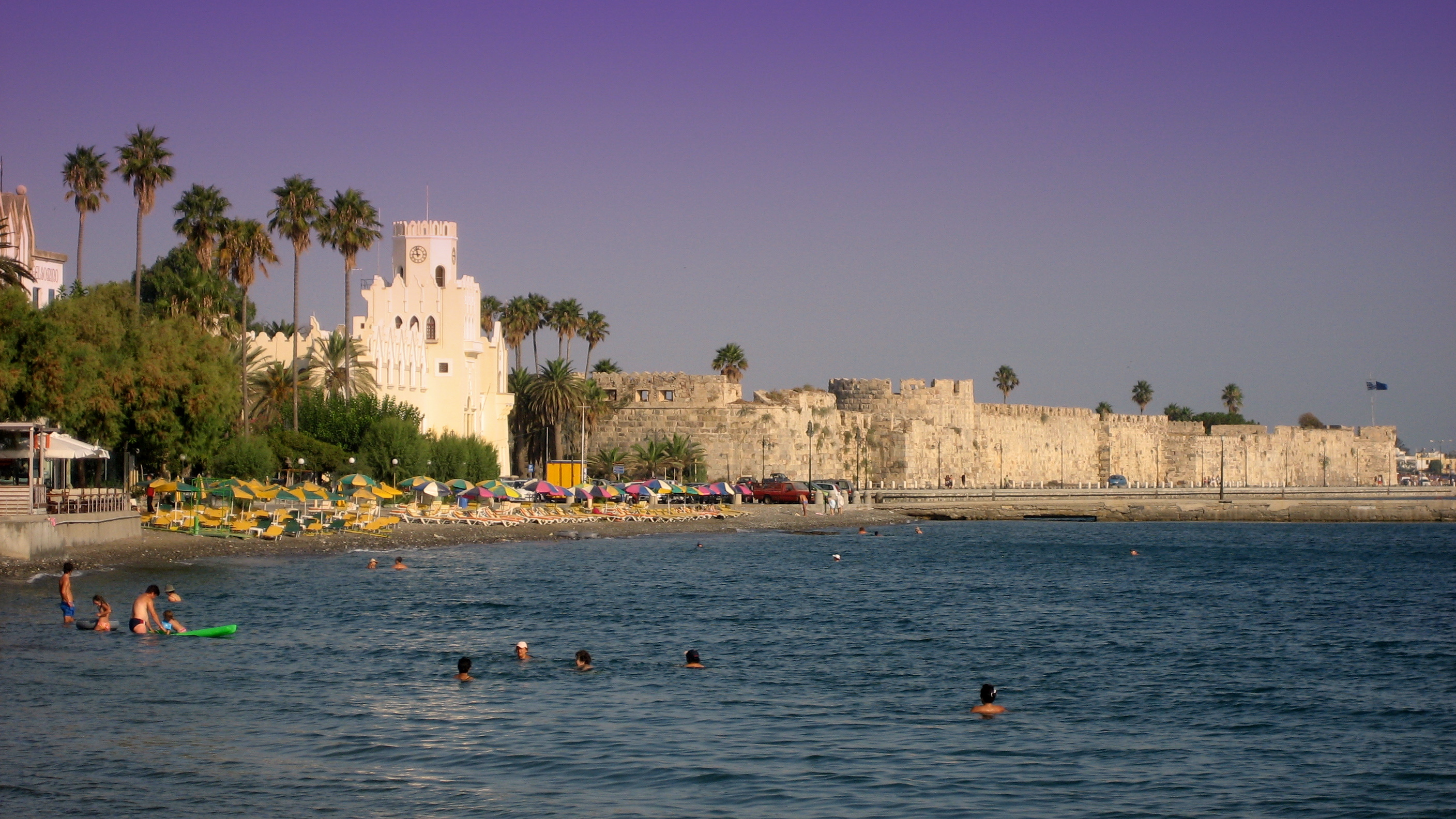 The Castle of Kos Island, Greece